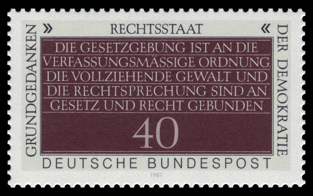 fundamental ideas of democracy